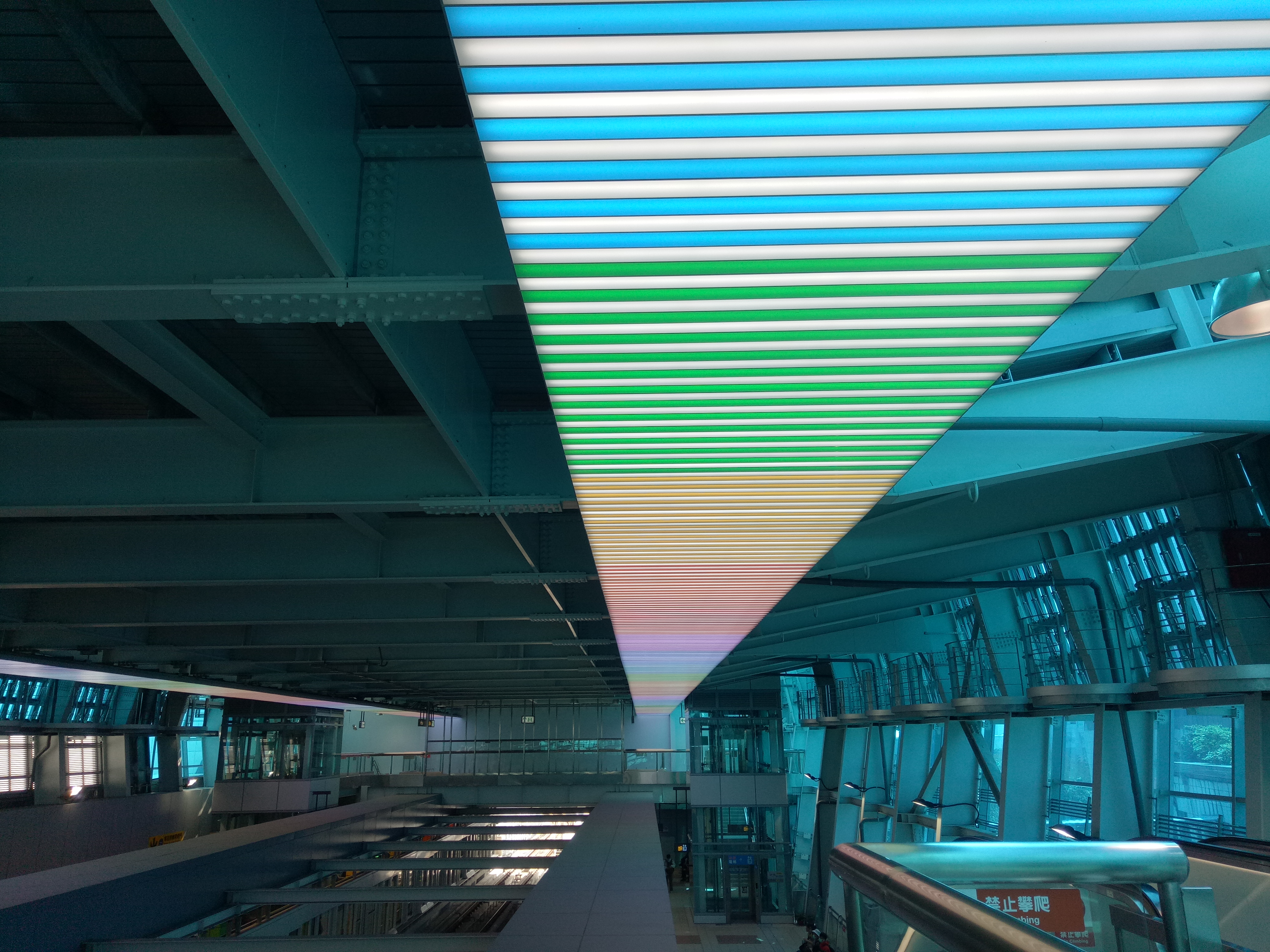 Interior of Taipei Mrt Banqiao Station (Circular Line).